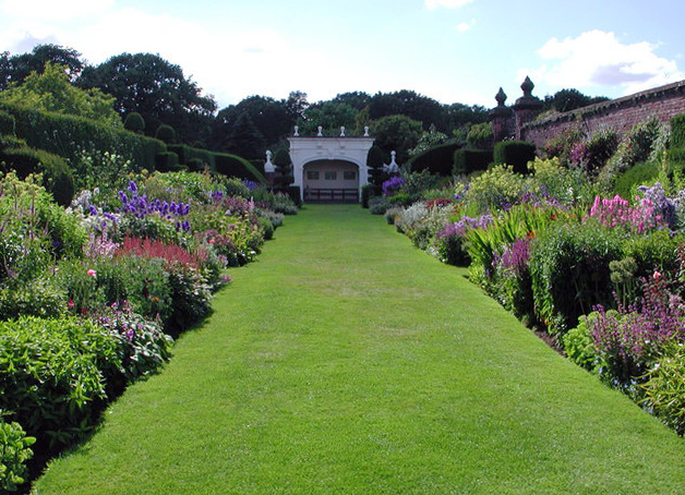 Photograph of the Herbaceous Border at Arley Hall looking towards The Alcove